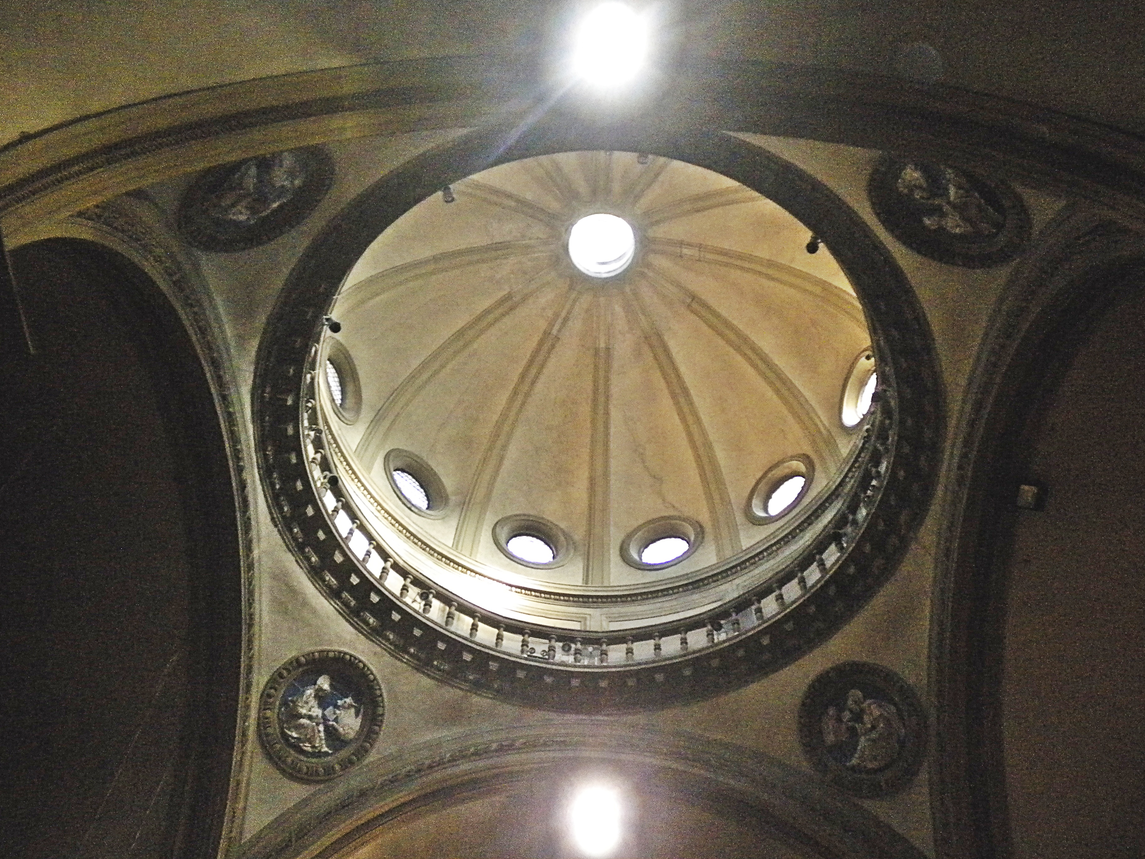 the dome